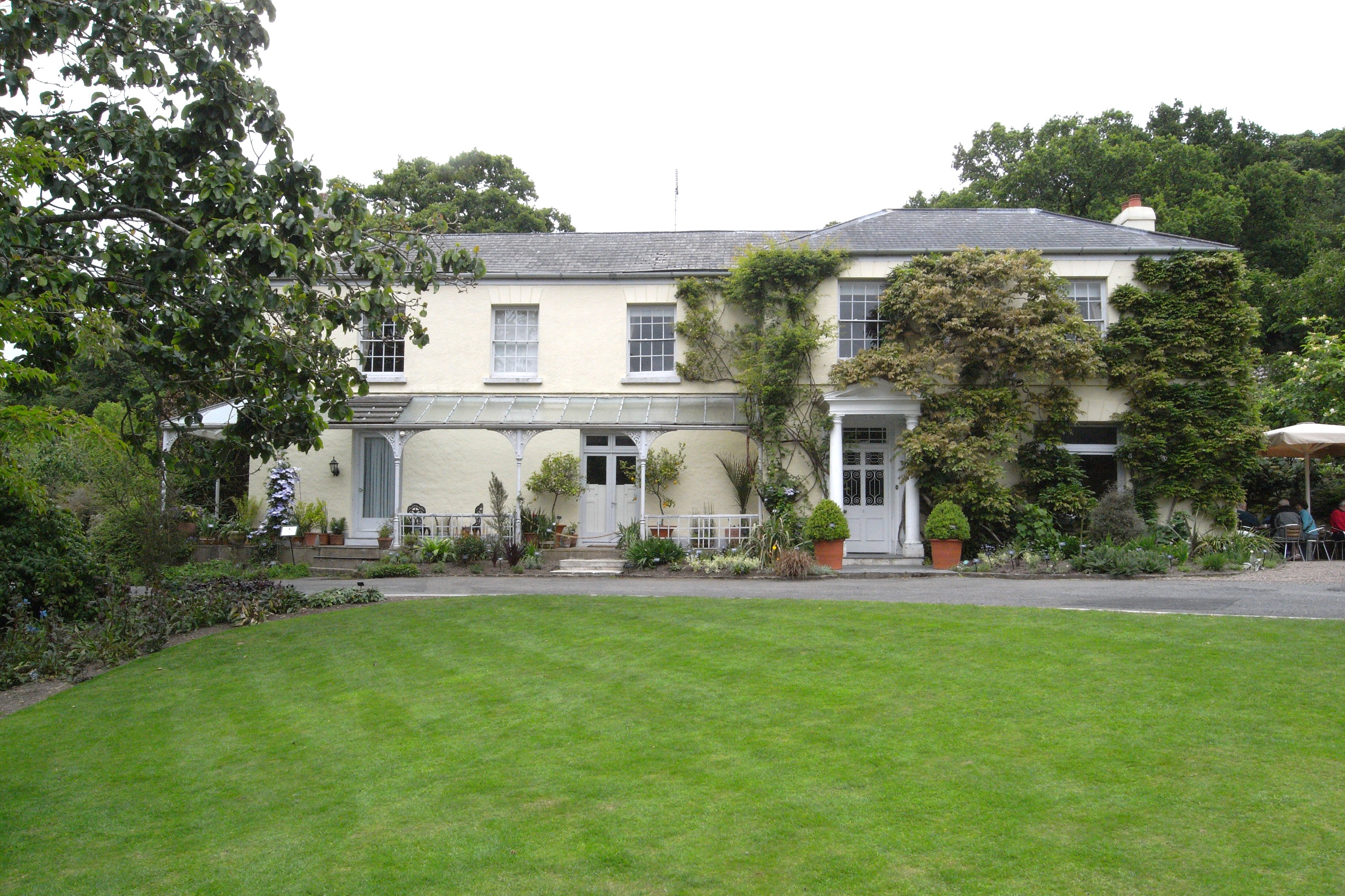 Teahouse in RHS Garden Rosemoor